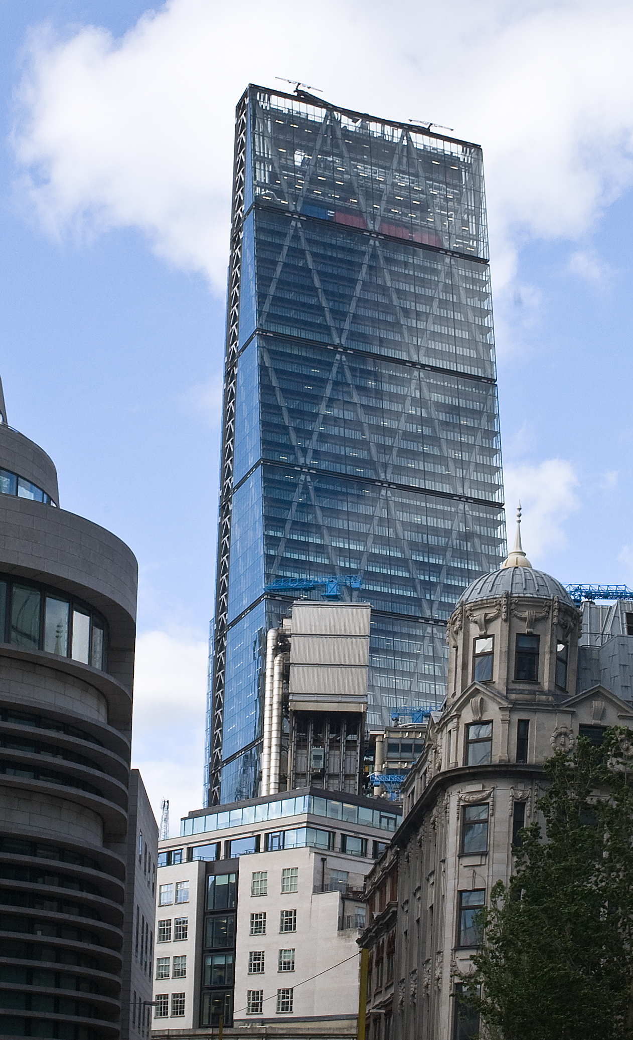 122 Leadenhall Street, or "The Cheesegrater"